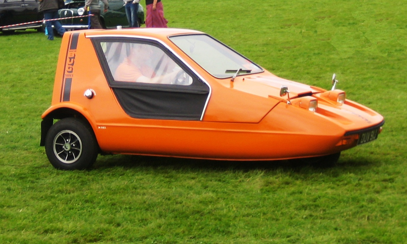 Bond Bug moving across a field near Stevenage